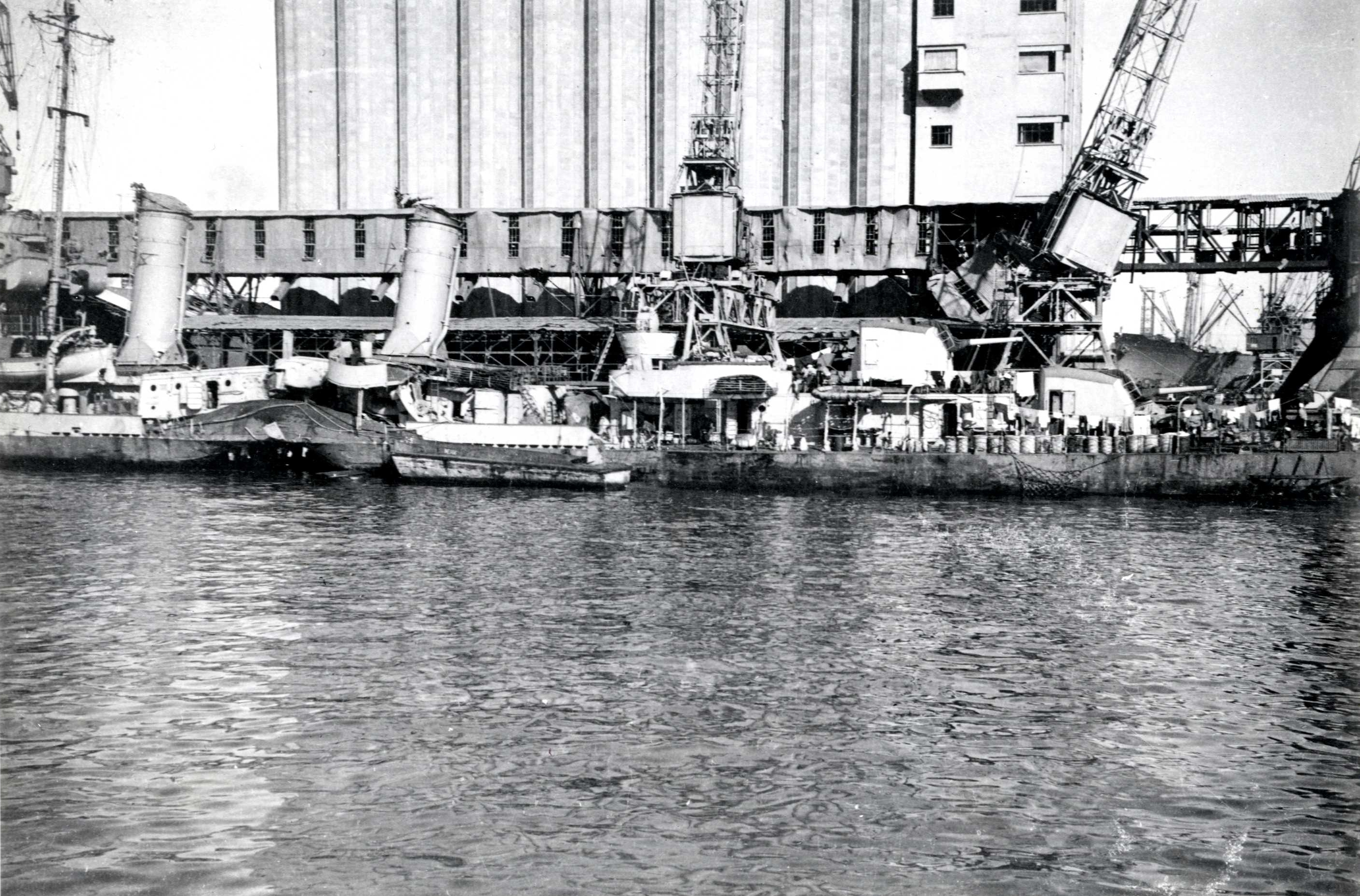 The torpedoed U.S. Navy destroyer USS Hambleton (DD-455). As she lay anchored by USS Winooski (AO-38) off Fedala, Morocco, in the evening of 11 November 1942, Hambleton was struck amidships on the port side by a torpedo fired by the German U-boat U 173. She was towed to Casablanca for temporary repairs before reaching the Boston Navy Yard, Massachusetts (USA), on 28 June 1943 for permanent repairs.